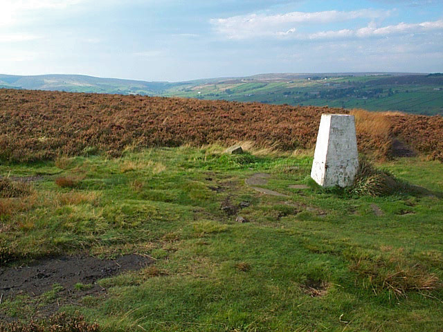 Trig point, Penistone Hill. In the background, the valley of the River Worth disappears westwards. Penistone Hill is a country park southwest of Haworth.